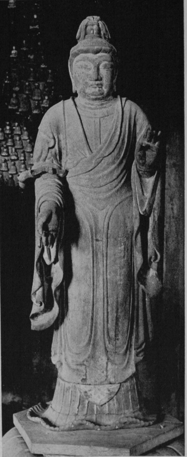 Bonten Colored wood Nara period, late 8th century 186.2 cm (73.3 in) Toshodaiji KondoKon-dō, Tōshōdai-ji, Nara, Japan